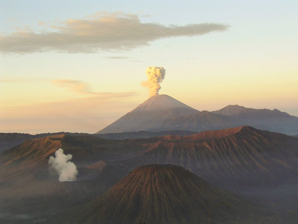 The Mount Bromo volcano on the island Java of Indonesia.